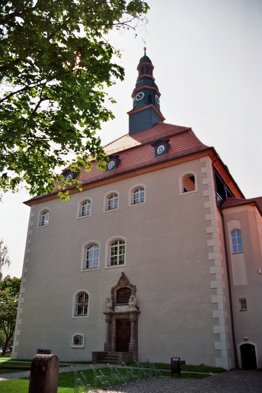 Tower of Lübben Castle in Lübben, Landkreis Dahme-Spreewald, Brandenburg, Germany.